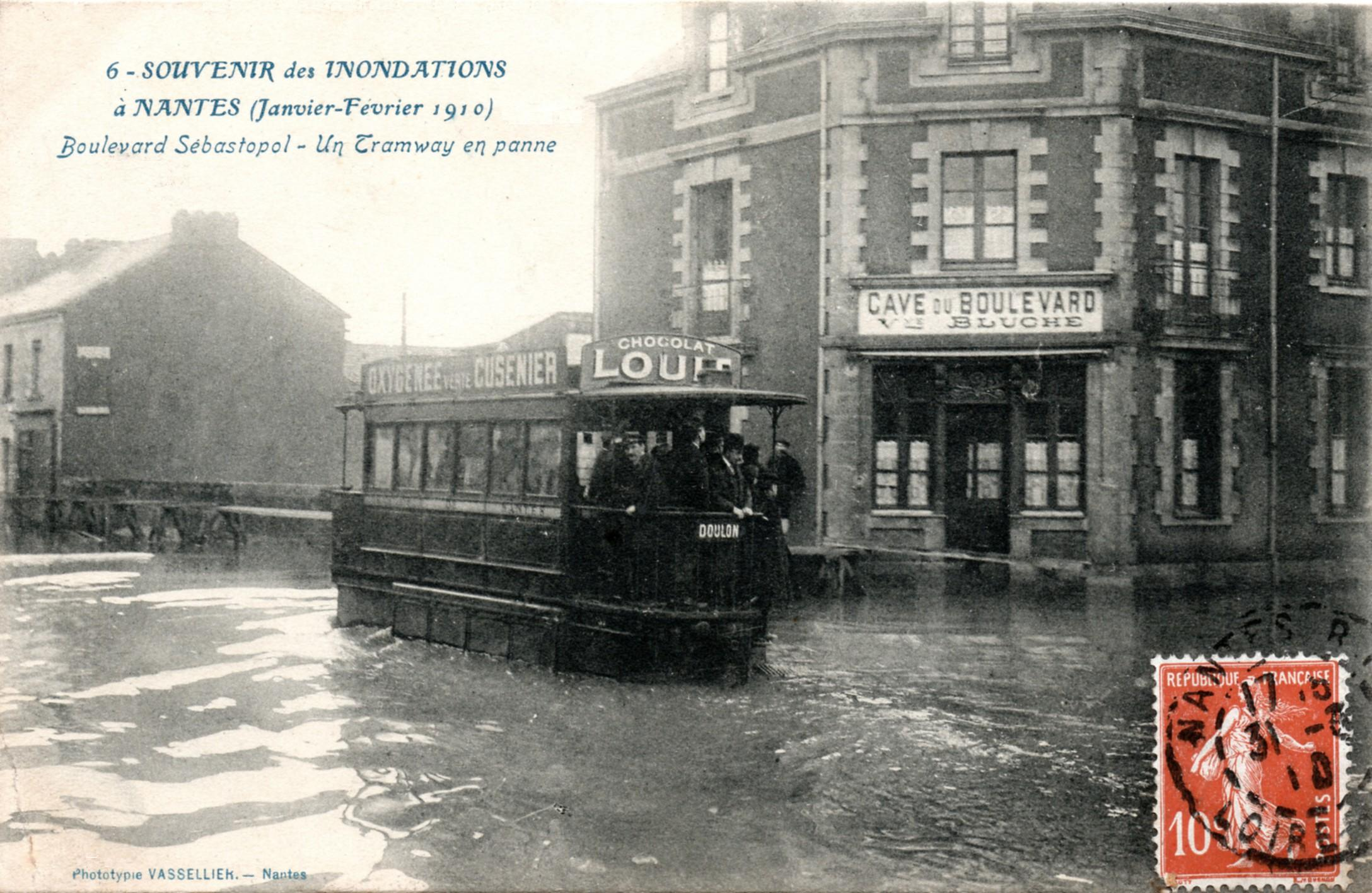 Mékarski compress air trams in Nantes (Loire-atlantique, France) during 1910 flooding - vintage postcard - personal collection